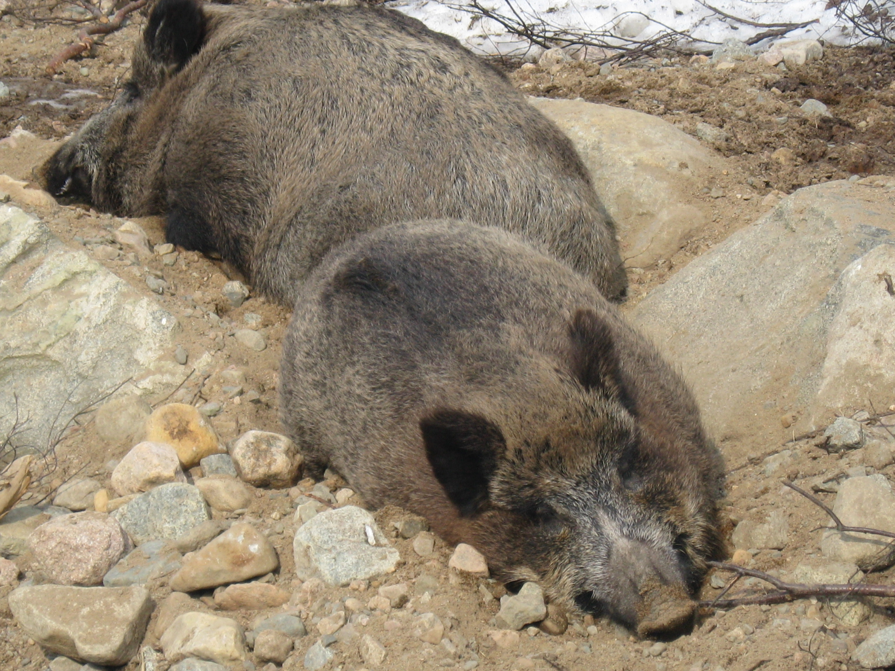 Wild boars at the RanuaZoo.